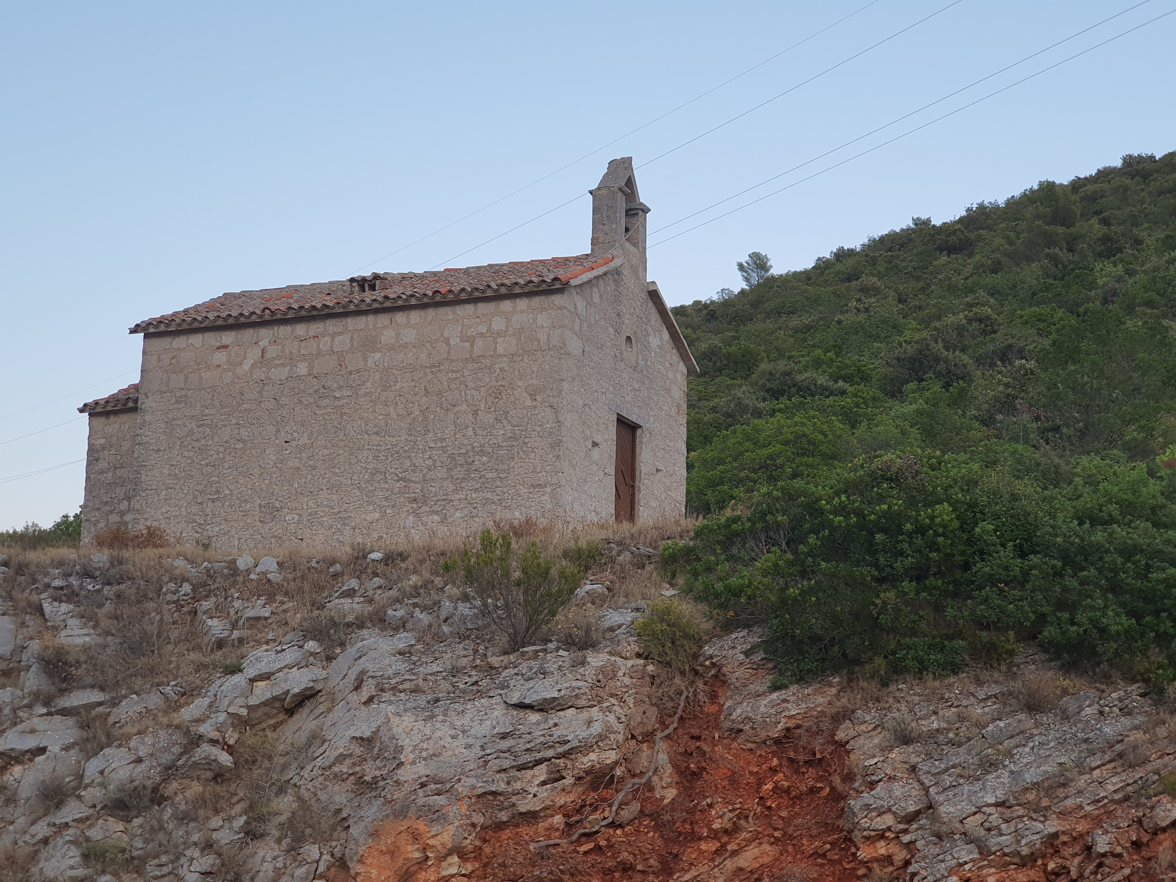 Crkva sv. Mihovila u Komiži